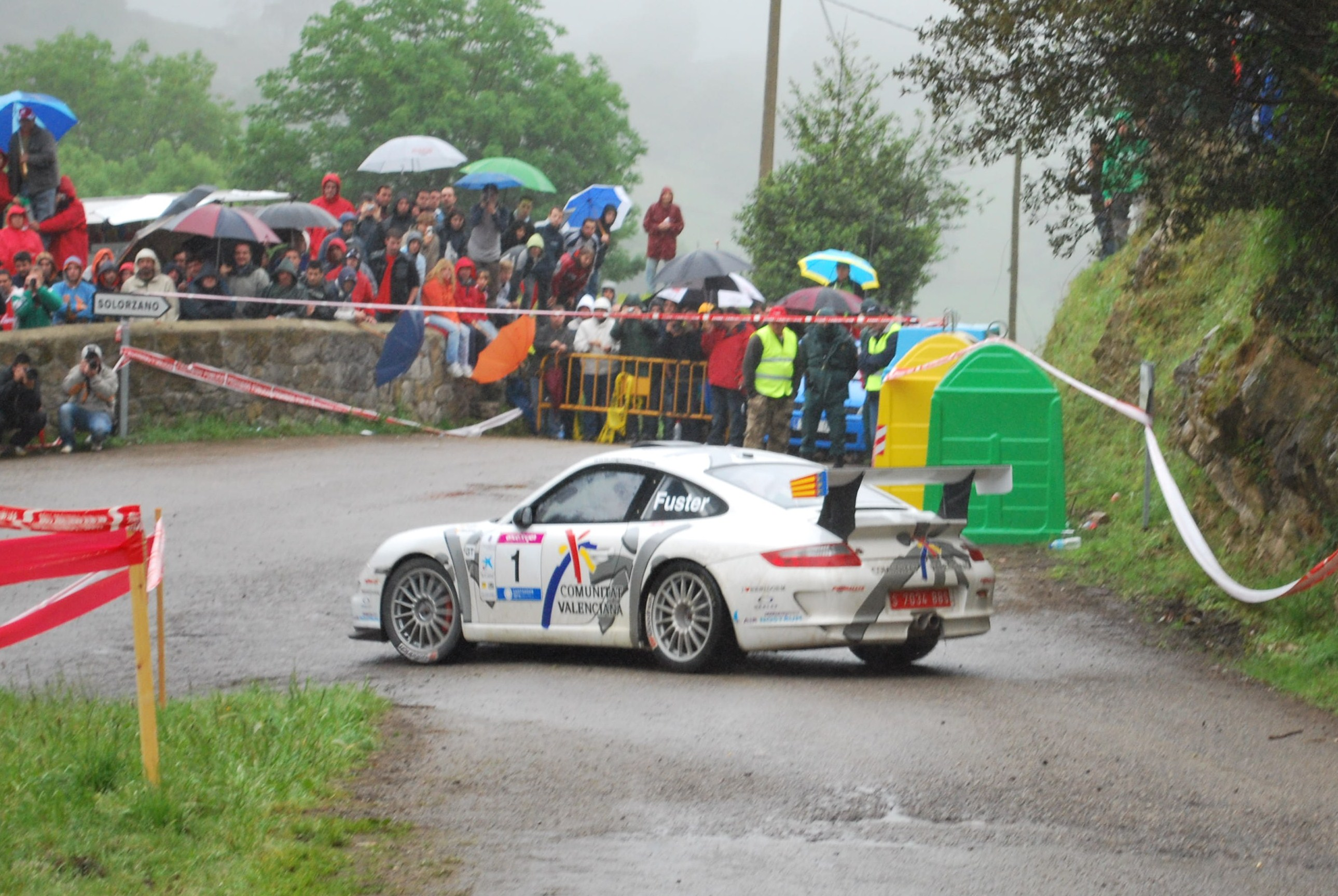 Miguel Fuster, a bordo de un Porsche 911 GT3, en el Rallye Cantabria-Infinita 2009